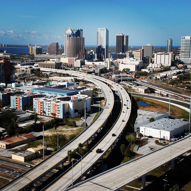 Lee Roy Selmon Crosstown Expressway entering downtown Tampa, looking west. The elevated, reversible lanes are seen in the bottom right and right-center (below CSX railroad tracks and Tampa Amtrak Station). The Crosstown Expressway has since been widened.